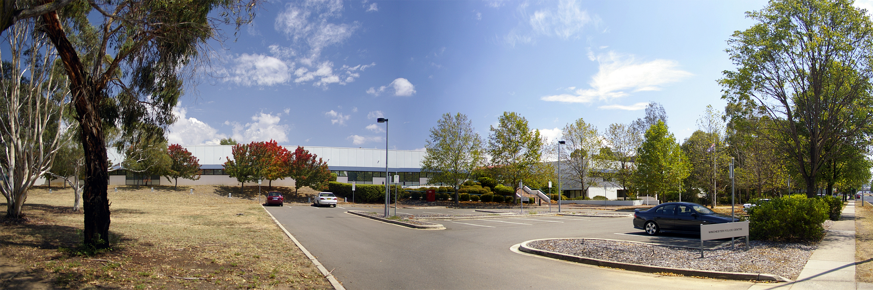 Winchester Police Centre in Belconnen, Australian Capital Territory